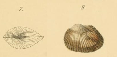 Anadara transversa (Say, 1822), Arcidae, Bivalvia, Mollusca